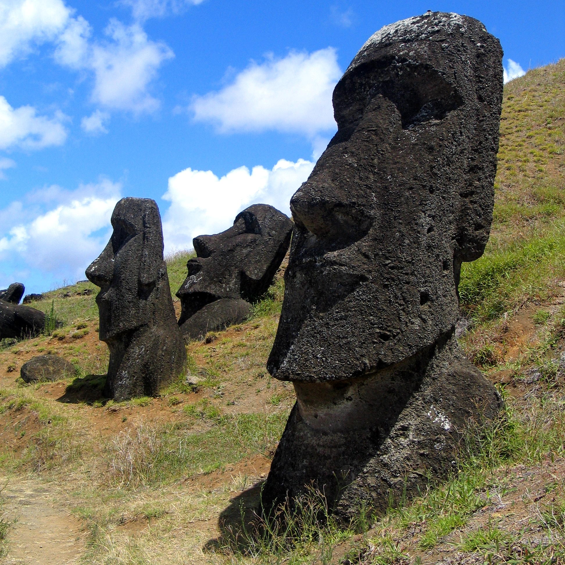 Moai at Rano Raraku, Easter Island